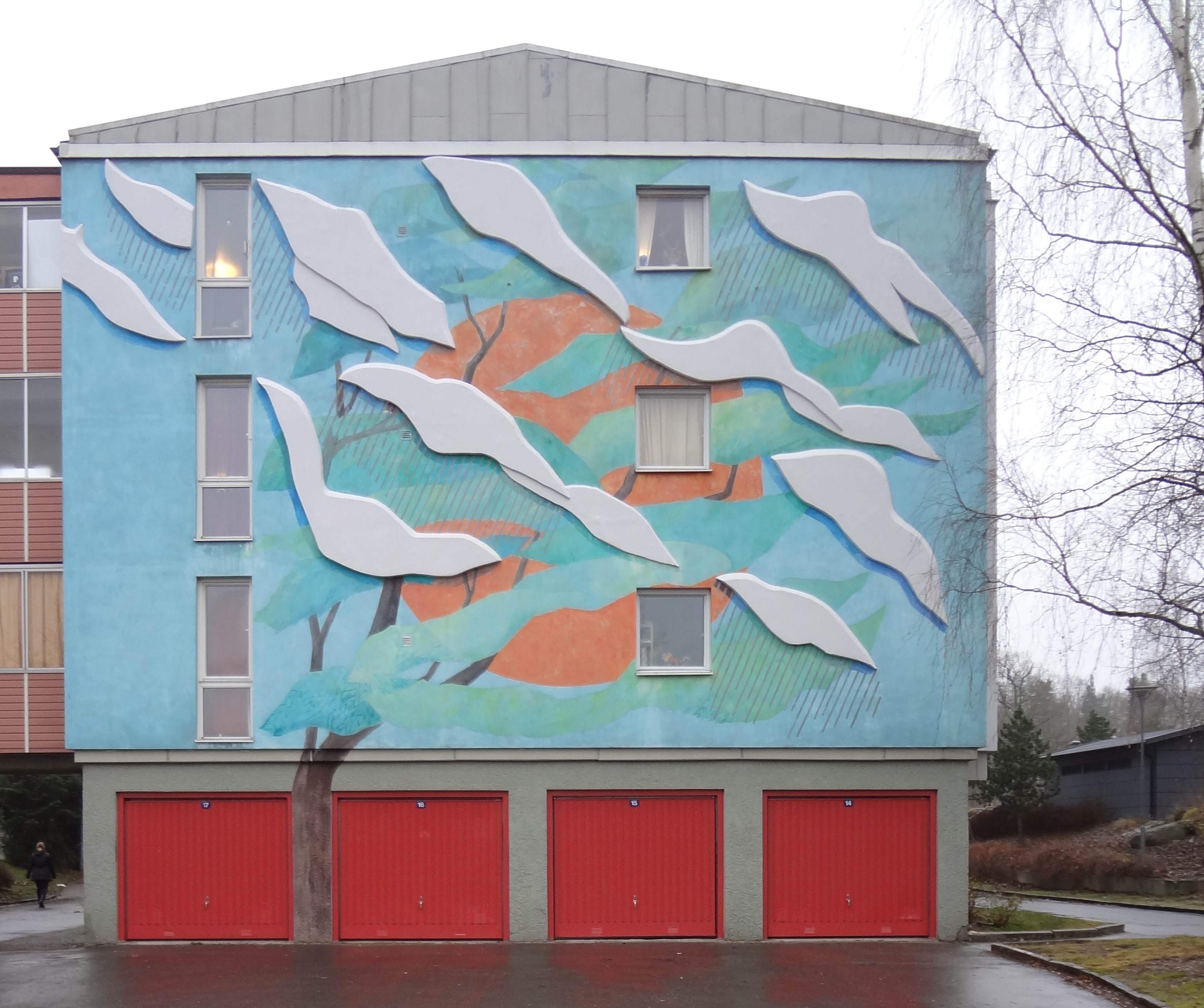 Painting "Väderlek" (en: "Weathers") by Hans Lindh. Ladugårdsgatan 12 Eskilstuna, Sweden. Photo taken November 2012.